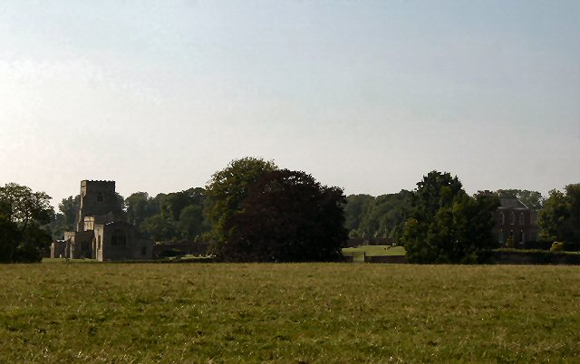 Dalham Church and Hall. As with many Suffolk churches, Dalham's is situated well away from the village. Instead, it is located next to Dalham Hall, pictured right in this photo.